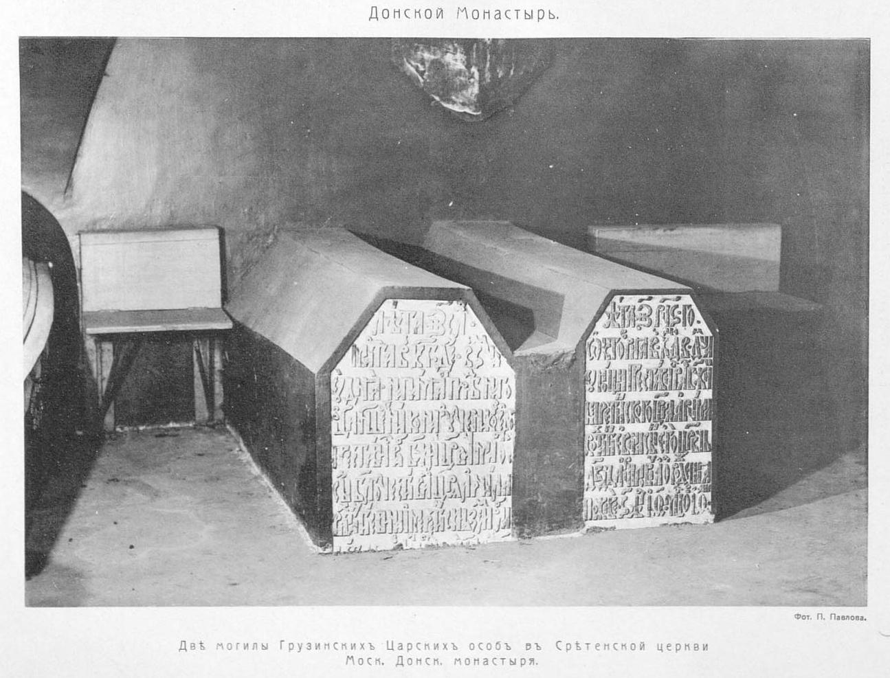 Georgian necropolis in Donskoy Monastery. An illustration from Letopis' Gruzii, edited by B. Esadze, 1913.